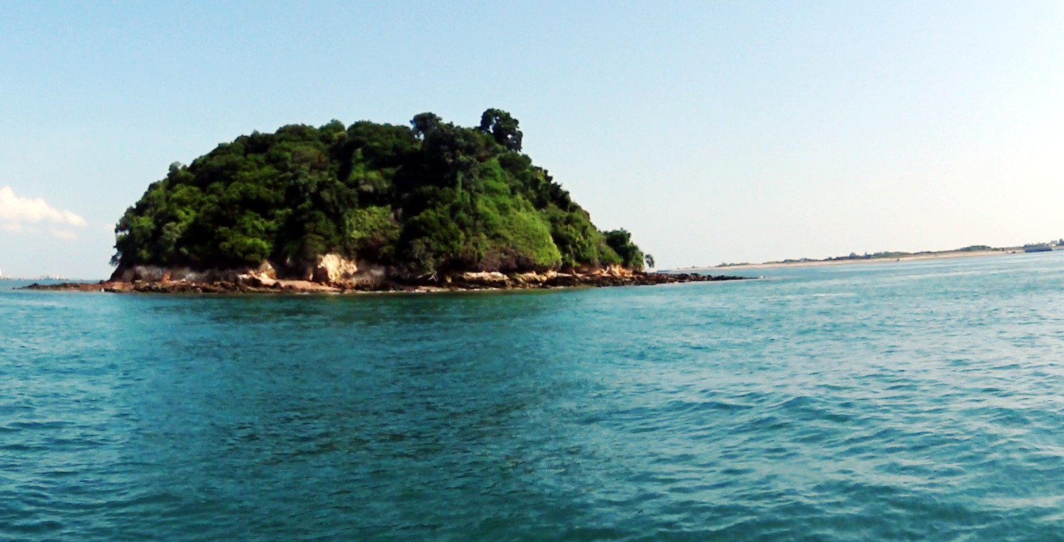 This is a photograph taken on 2014-07-25 of Junk Island, also known as Pulau Jong, in Singapore.